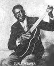 American blues guitarist Curley Weaver (1906-1962).